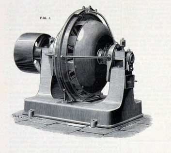 Mordey Generator